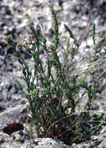 Micromeria cristata subsp. kosaninii